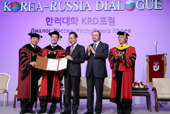 Korea-Russia Dialogue civil society forum. Dmitry Medvedev received an honorary doctorate of law from Koryo University.